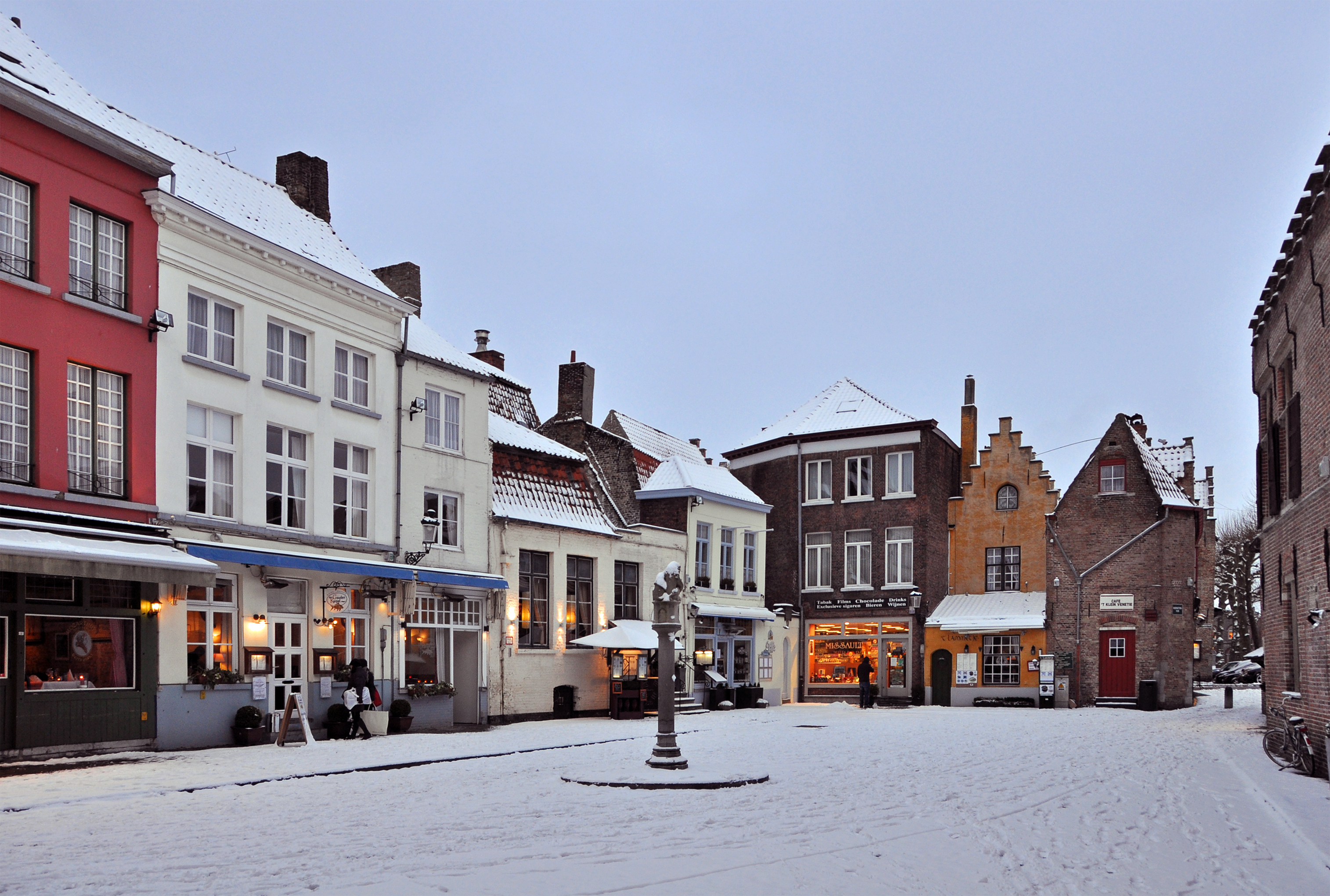 Bruges (Belgium): Huidenvettersplein